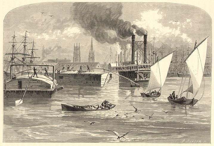 "Mississippi River at New Orleans, 1873". Woodcut view showing river with fishing boat, sail boats, and flat boats in foreground; further back a steamship and sailing ships. In background a portion of the city's skyline seen; steeples of St. Patrick's Church and the old First Presbyterian Church seen left of center.